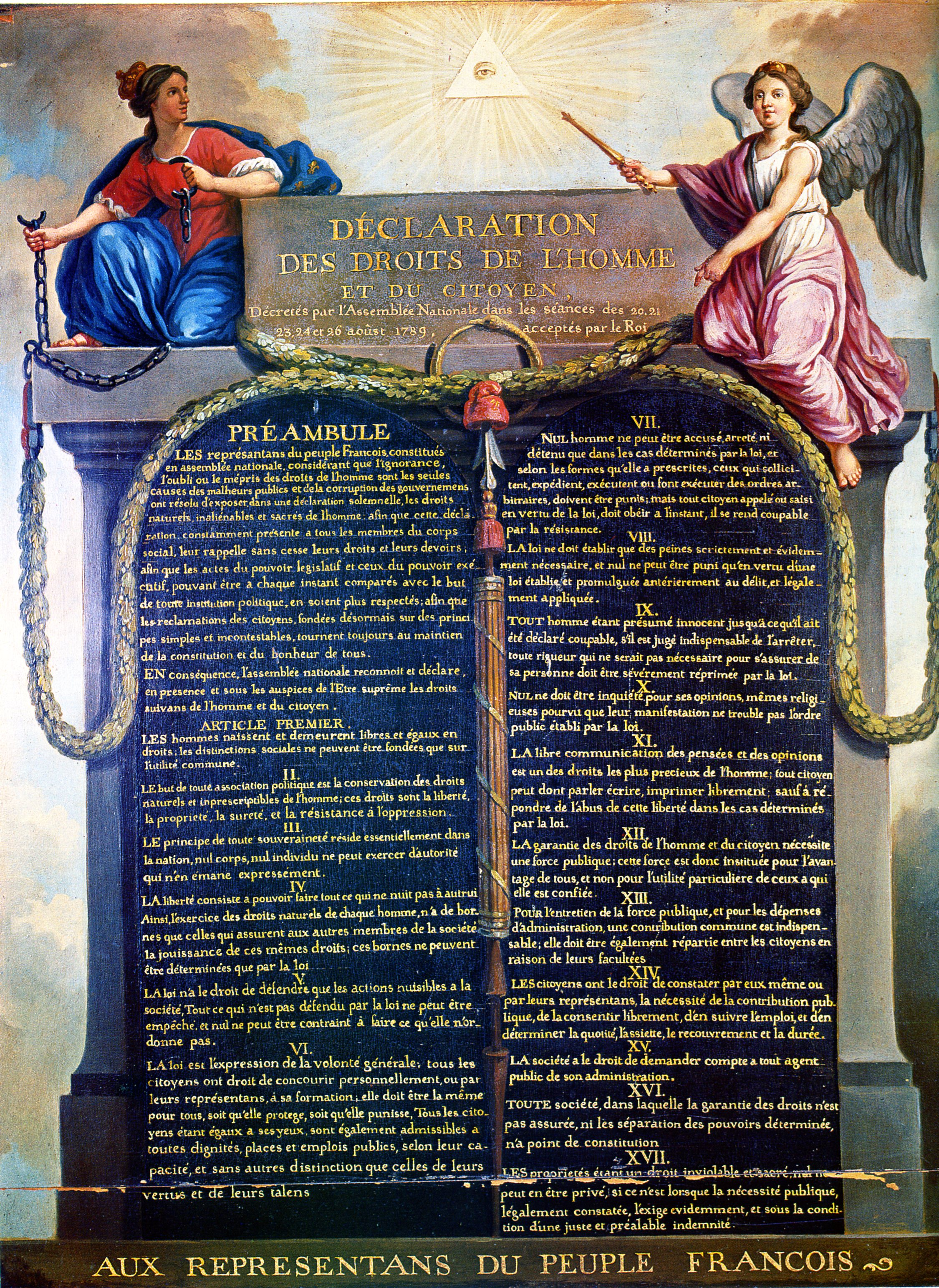 Déclaration des droits de l'homme et du citoyen